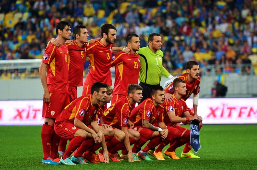 Republic of Macedonia national association football team